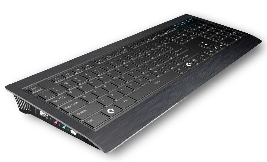 2011 Commodore USA Vic-Slim, an all-in-one x86 PC sold using the branding of the Commodore VIC-20 computer.